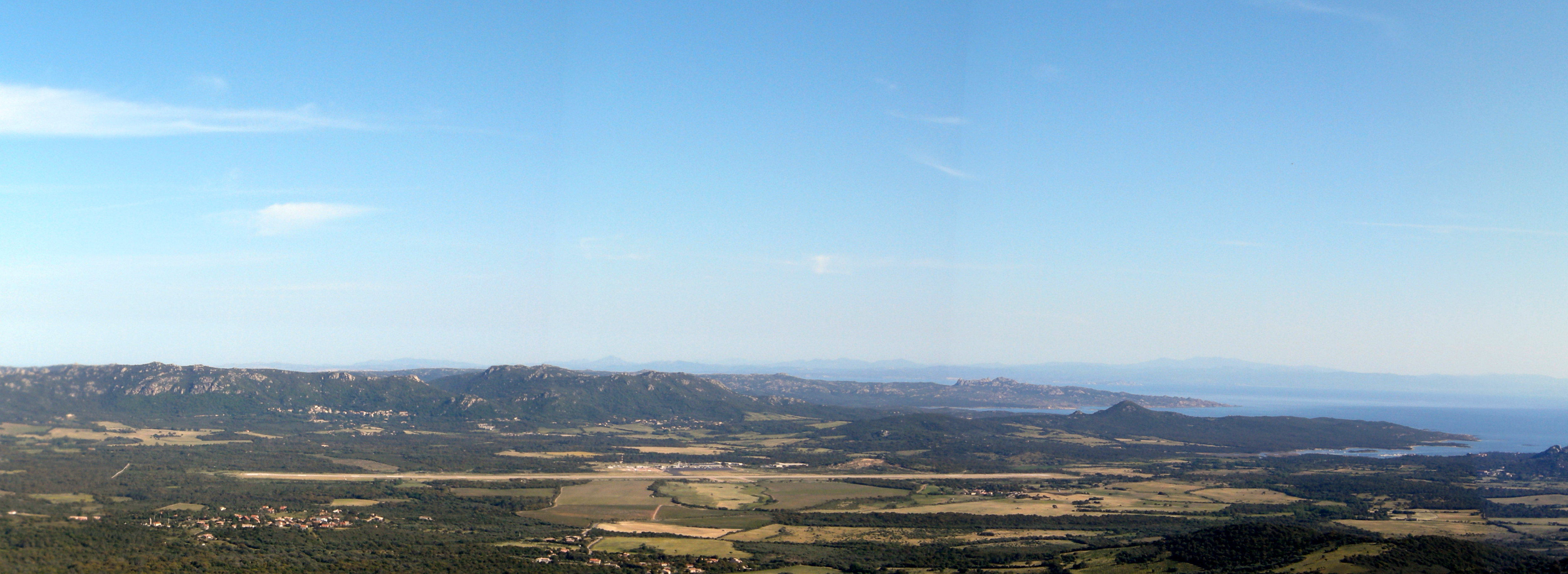 Figari airport (Corsica)